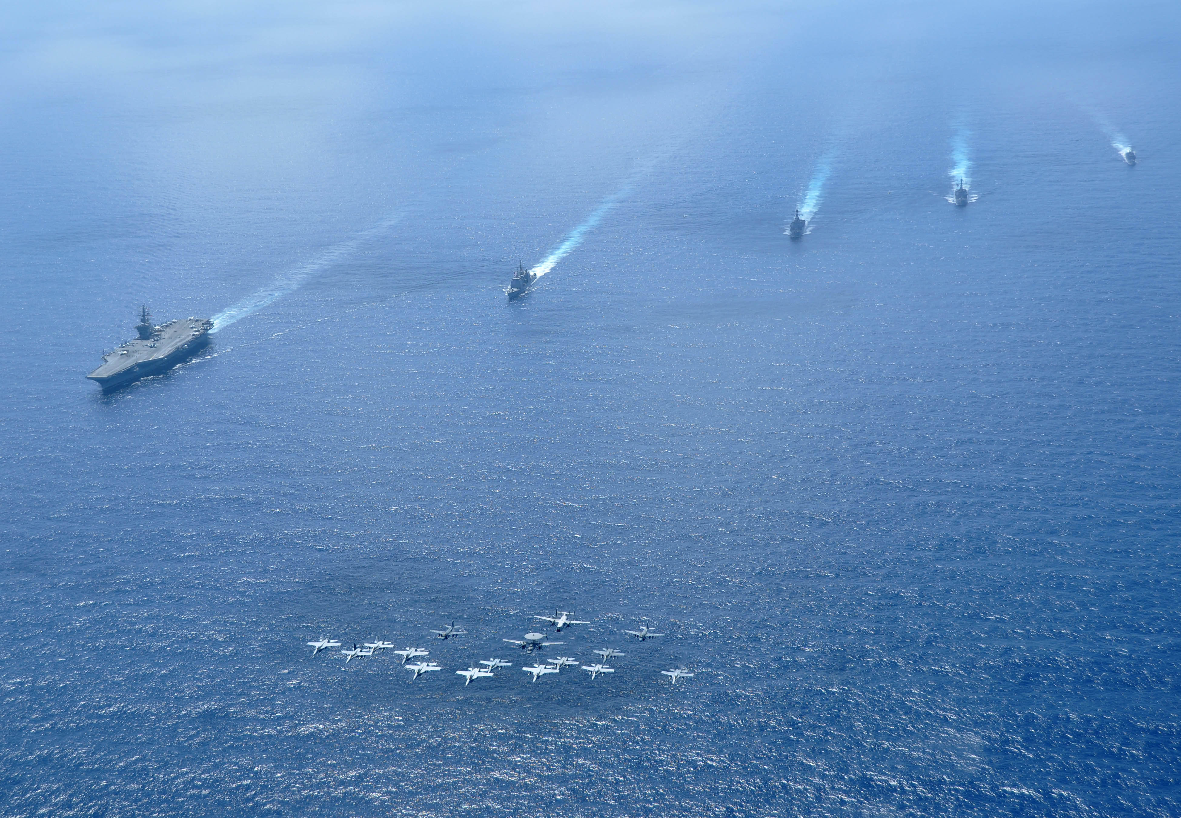 SOUTH CHINA SEA (Feb. 15, 2010) Ships and aircraft assigned to Carrier Strike Group (CSG) 11 operate in formation in the South China Sea. The Nimitz Carrier Strike Group is conducting operations in the U.S. 7th Fleet area of responsibility. (U.S. Navy photo by Mass Communication Specialist 1st Class David Mercil/Released)